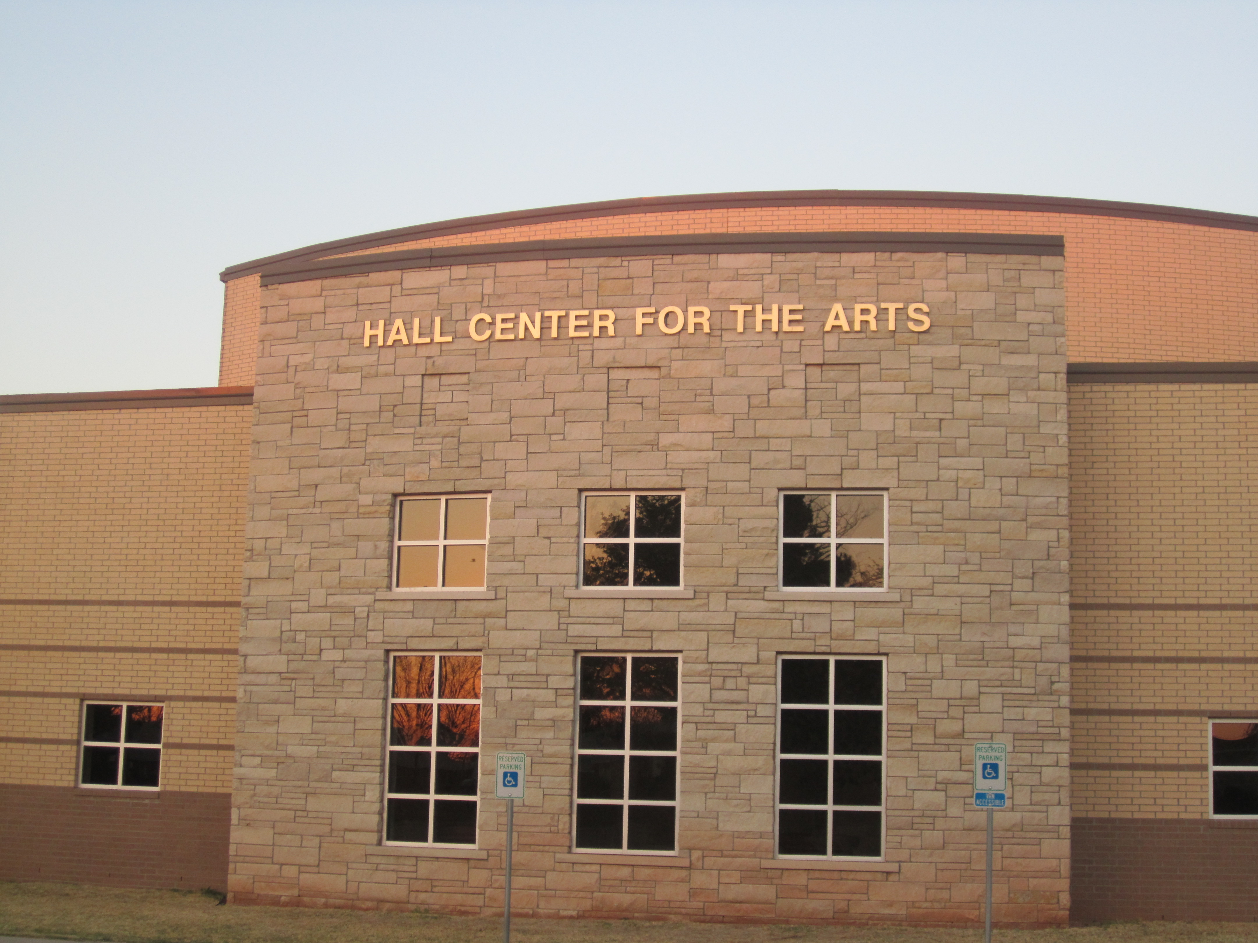 I took photo in Big Spring, TX, with Canon camera.